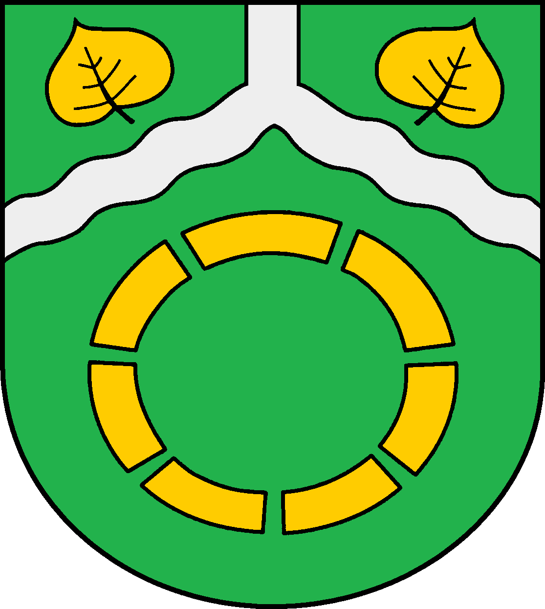 Coat of arms of the municipality Oering in Schleswig-Holstein, Germany.